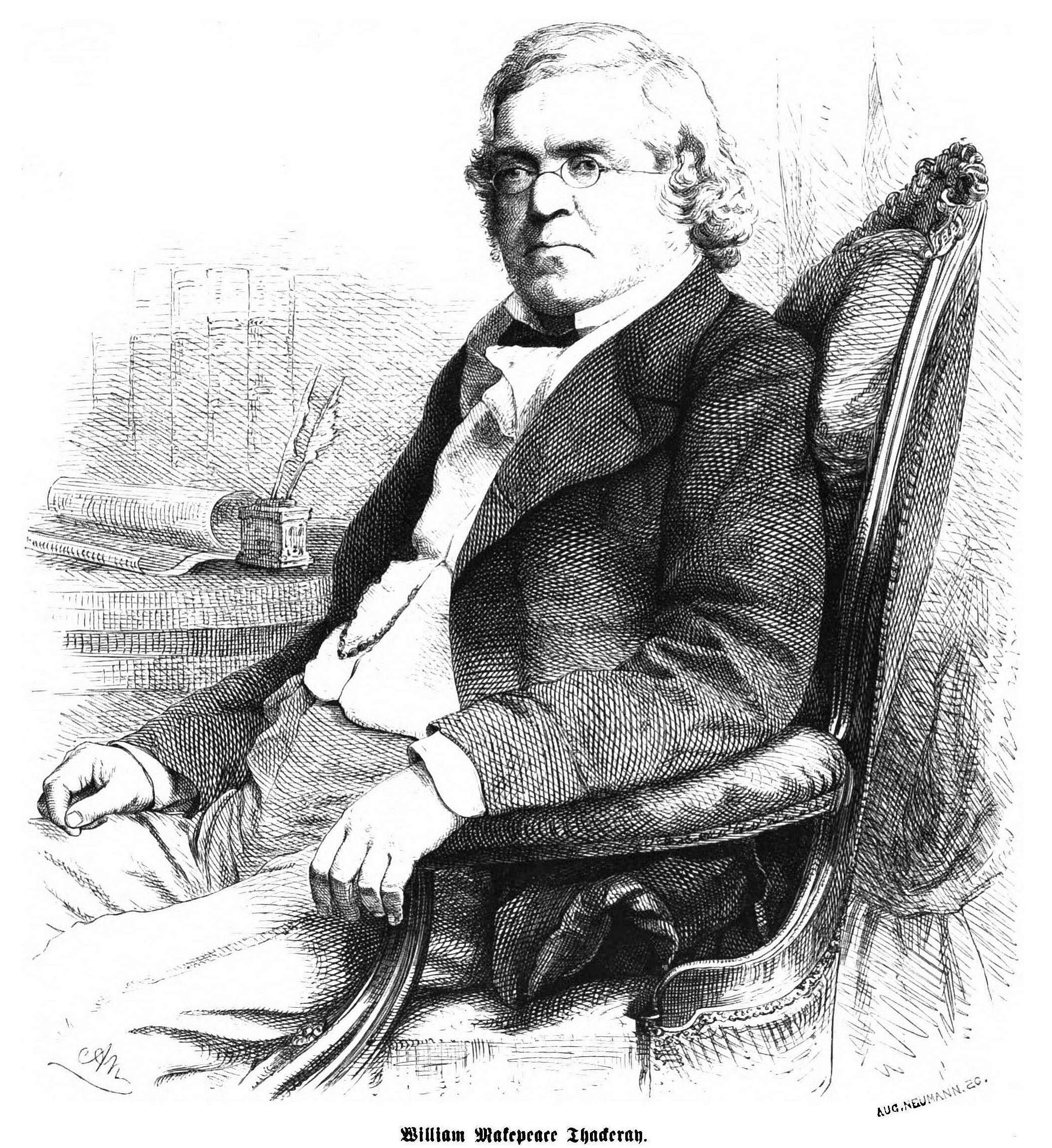 caption: "William Makepeace Thackeray."